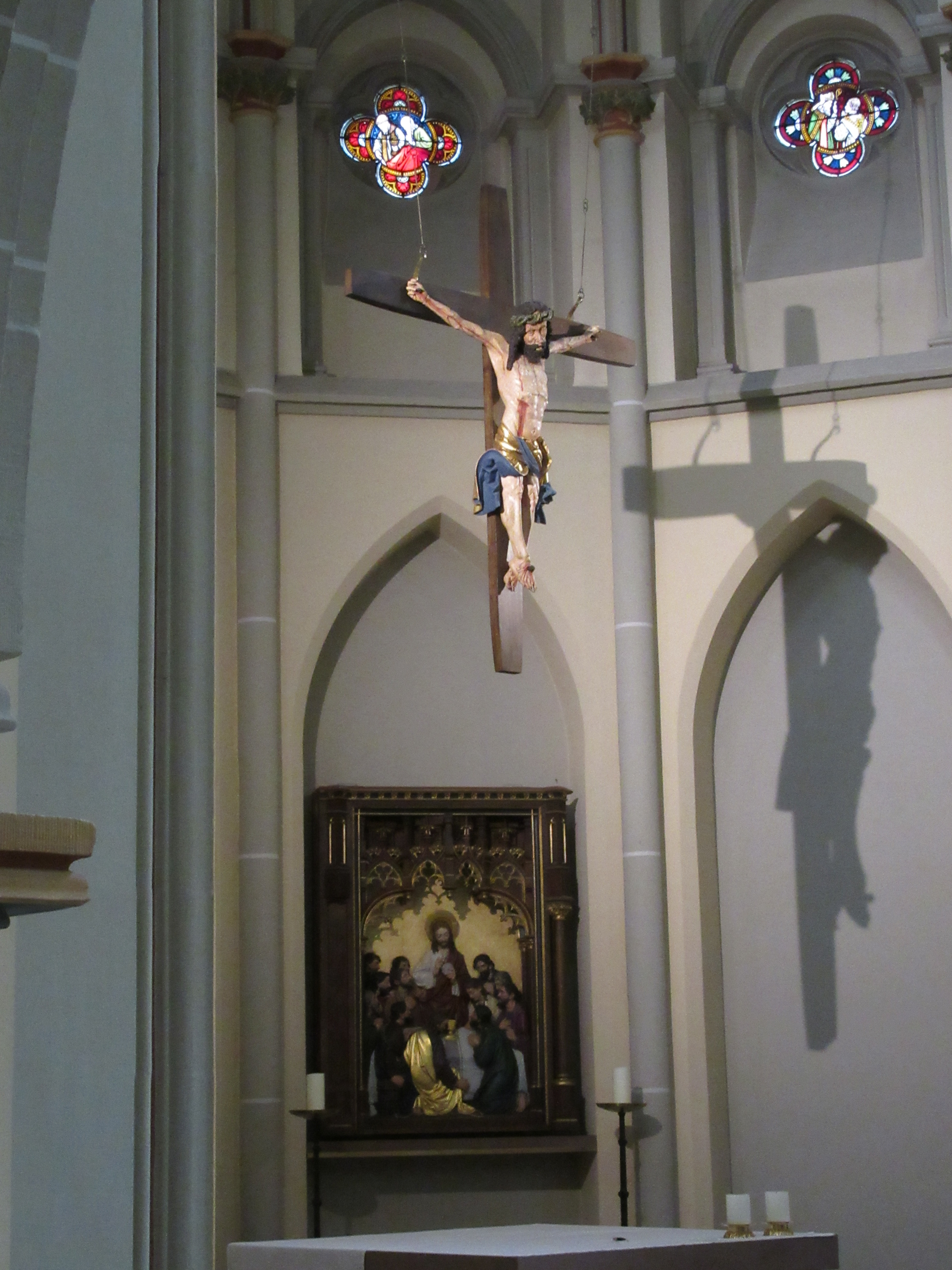 Interior of Herz-Jesu-Kirche (Weimar)